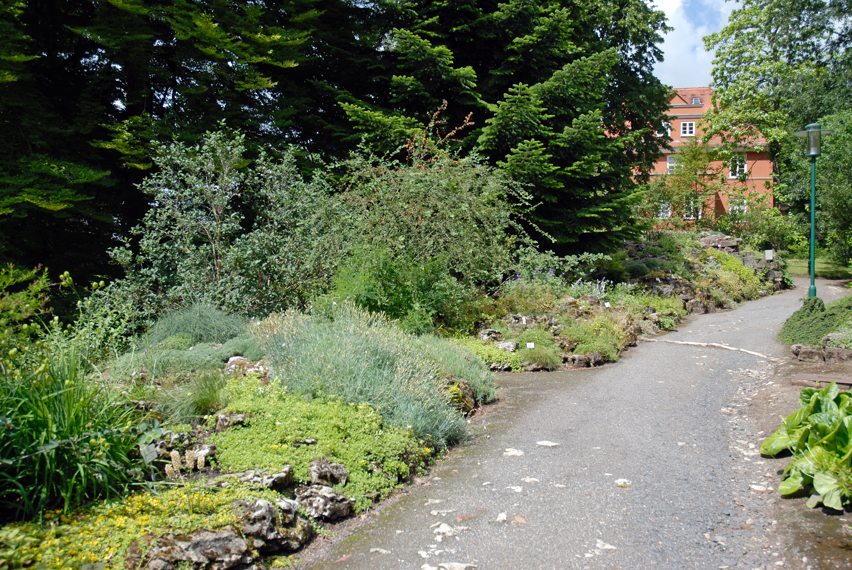 This image shows the botanical garden in Jena.